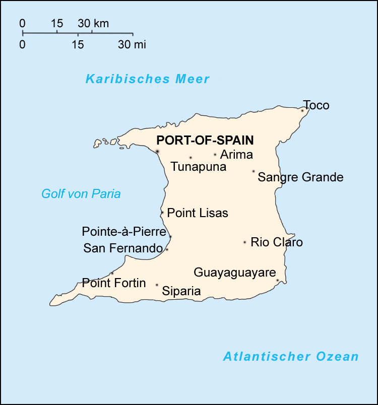 German Map of Trinidad